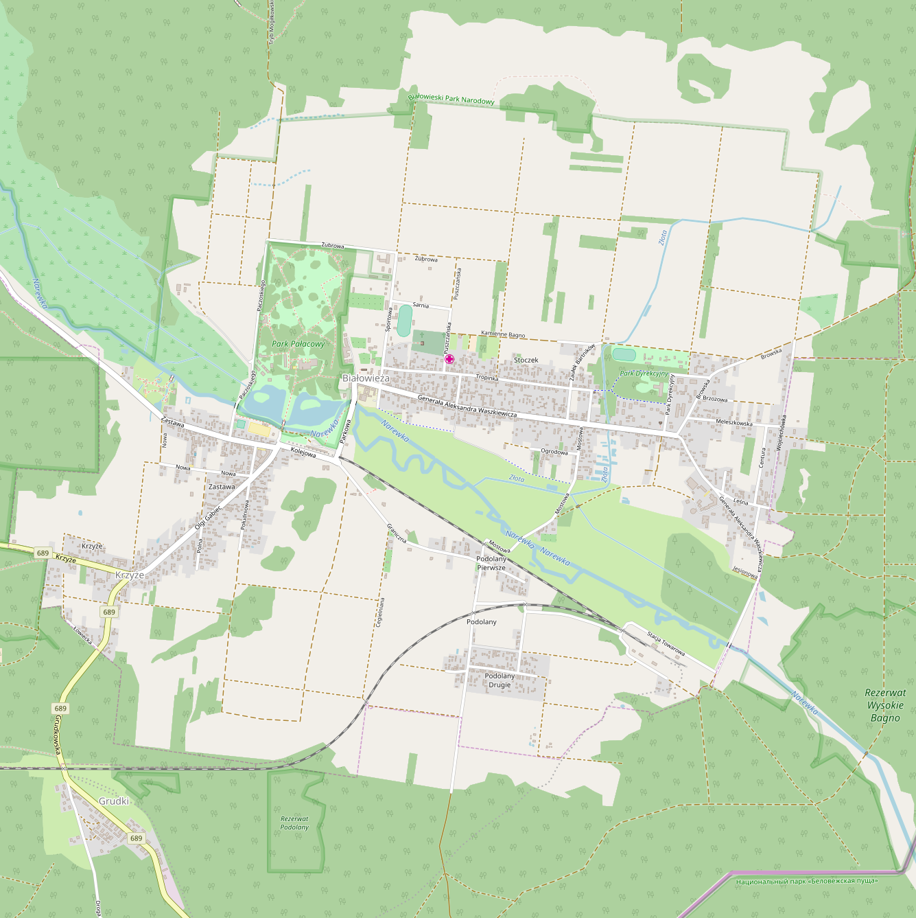 Map of village Białowieża, Poland This map of Białowieża was created from OpenStreetMap project data, collected by the community. This map may be incomplete, and may contain errors. Don't rely solely on it for navigation.